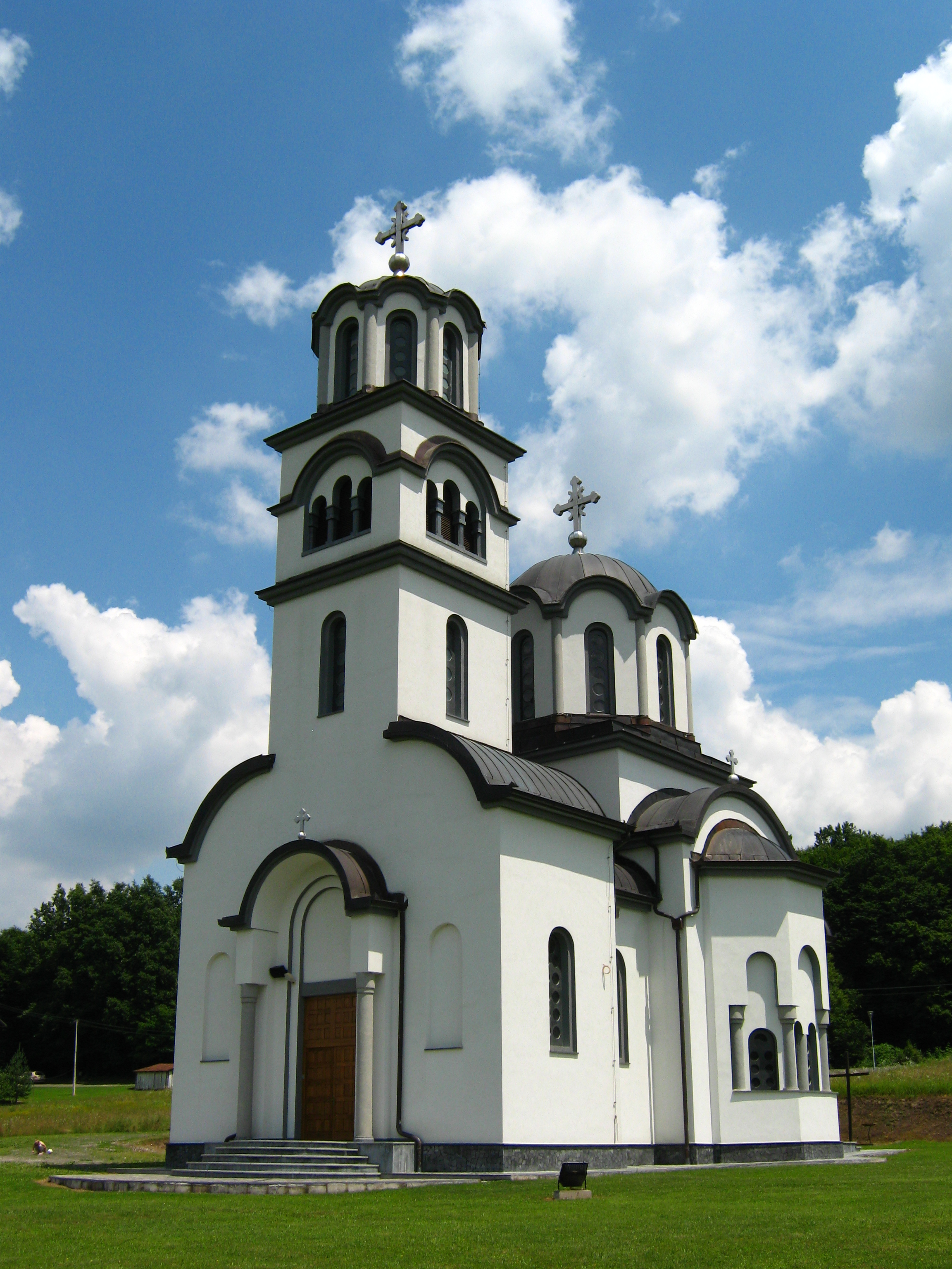 Crkva u Rastuši